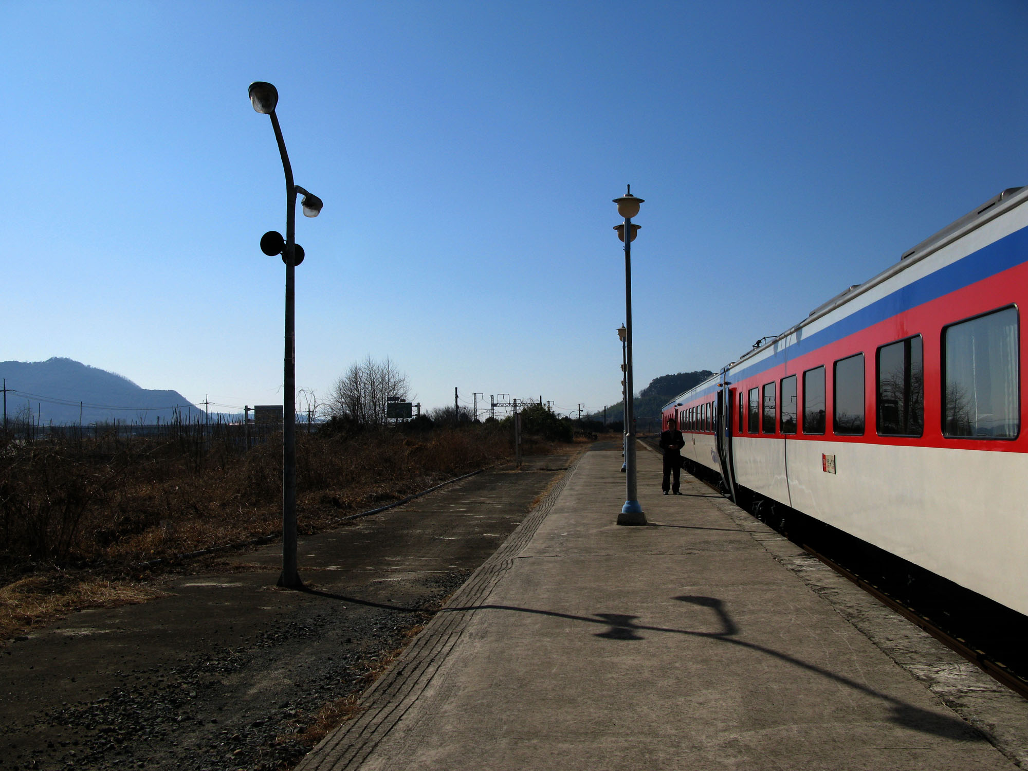 Gyeongjeon Line Nakdonggang Station Platform (To Songjeong-ri, Gwangju)